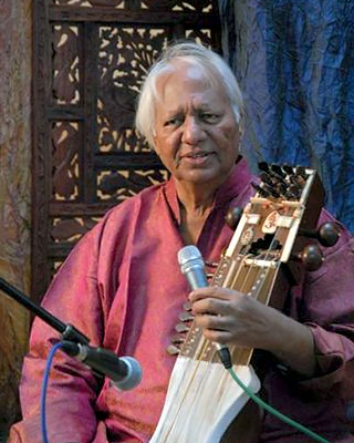 Ram Narayan at Thames Valley University, Slough, England, for a workshop and retreat in May 2007